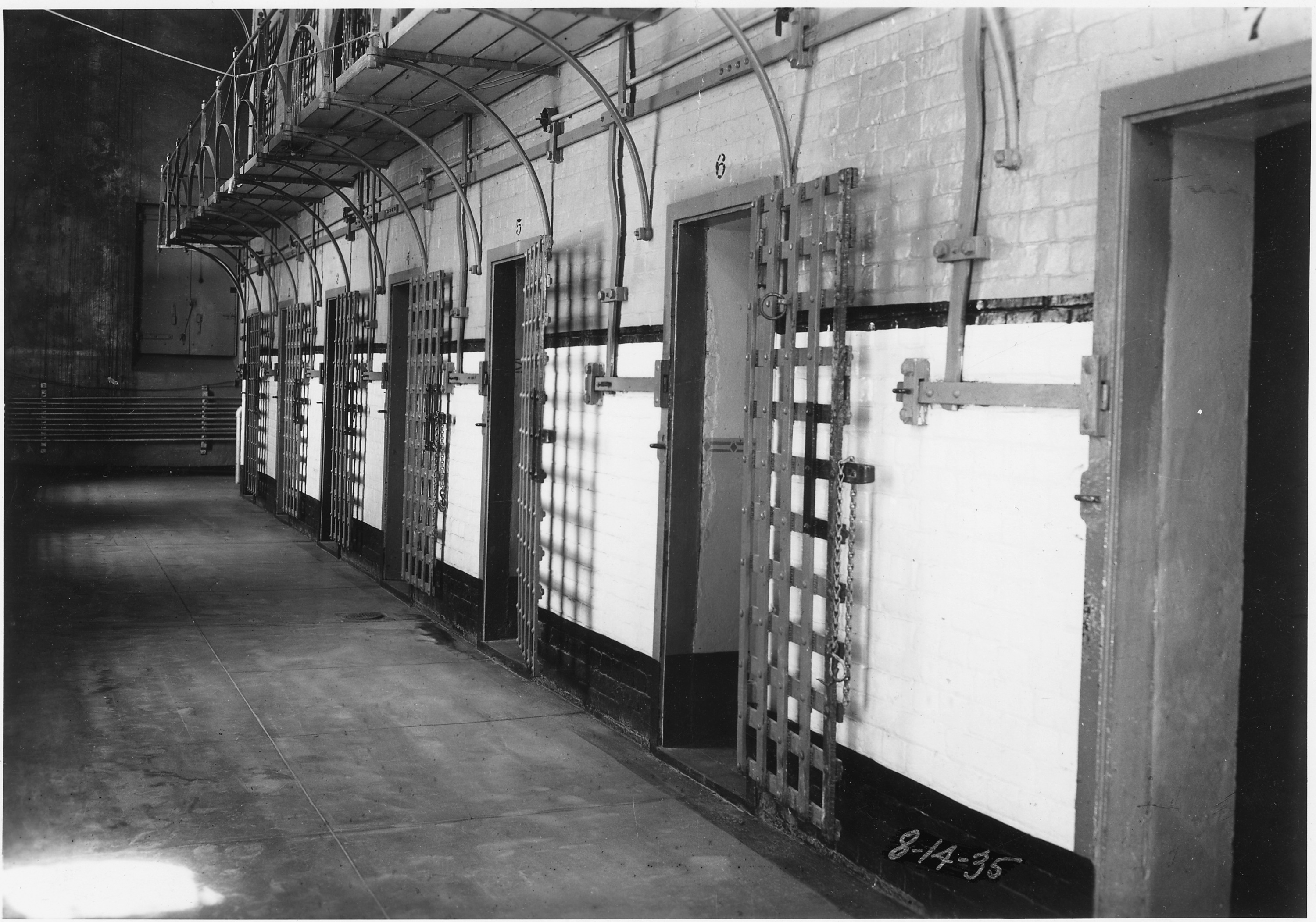 Scope and content: The photos in the collections date from its establishment as a Federal prison located on an island in Puget Sound.